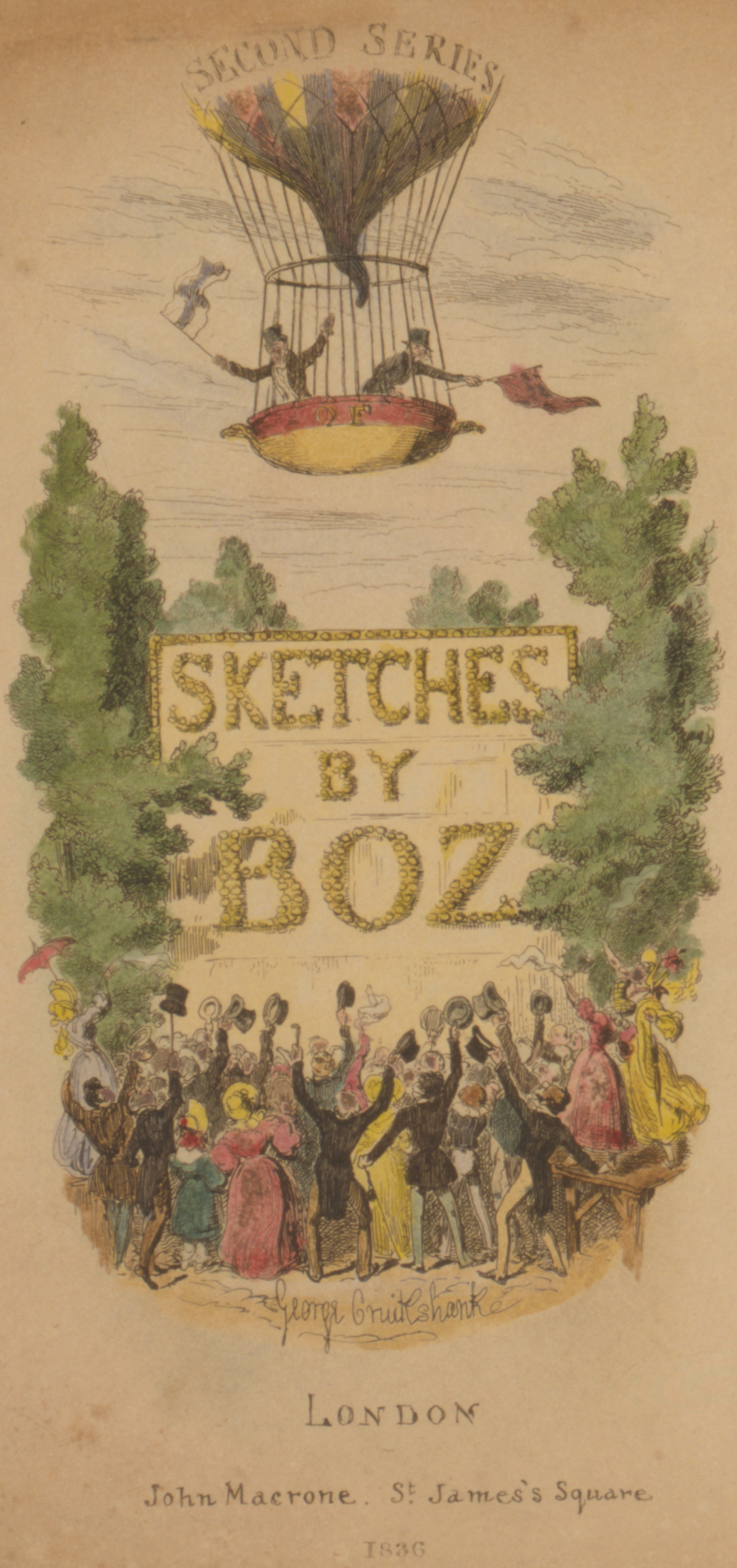 George Cruikshank - Sketches by Boz, frontspiece